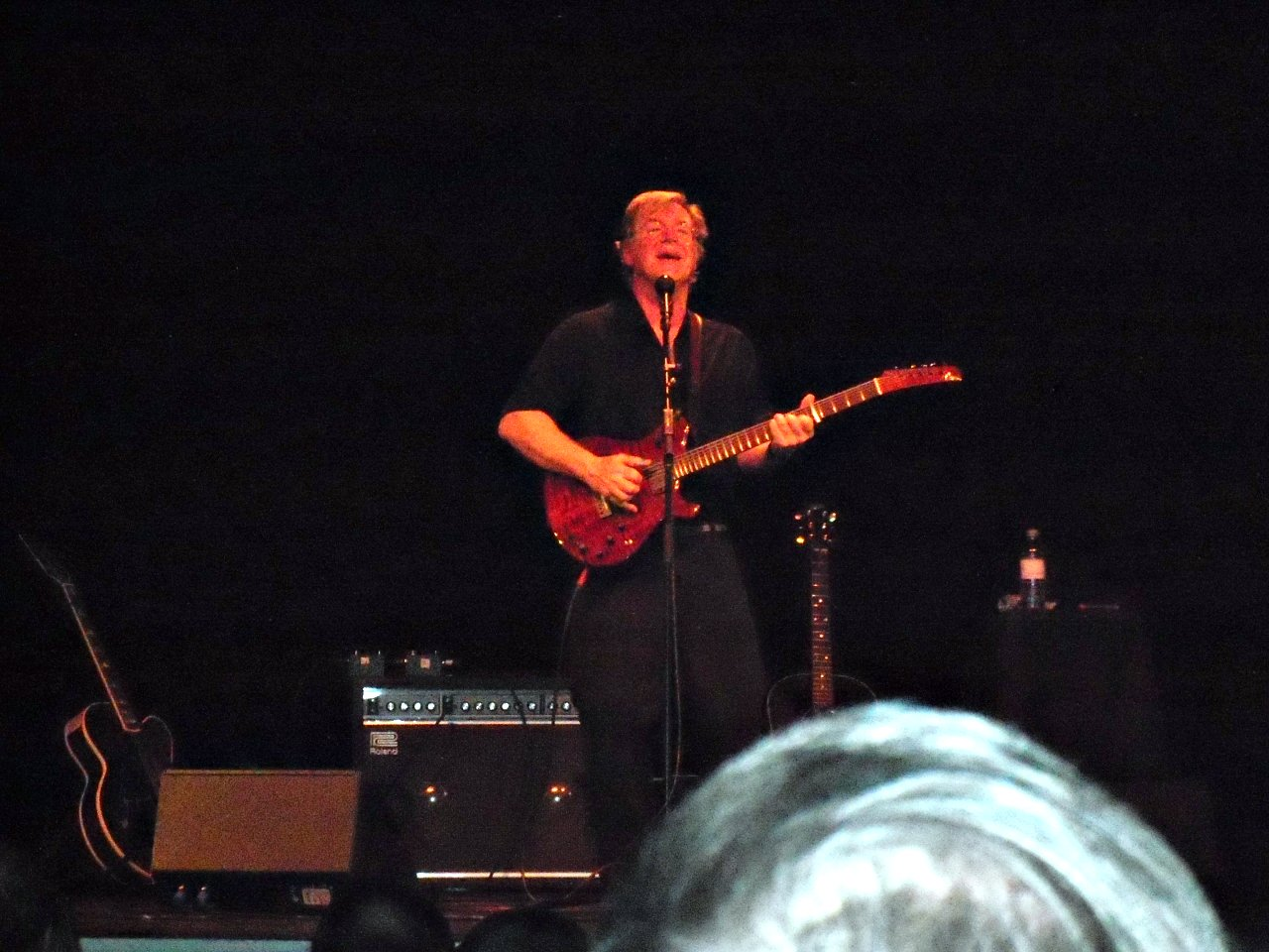 John Sebastian of 1960s band The Lovin Spoonful, performed at the Katherine Hepburn Theater in Old Saybrook, Connecticut-on November 27, 2011.